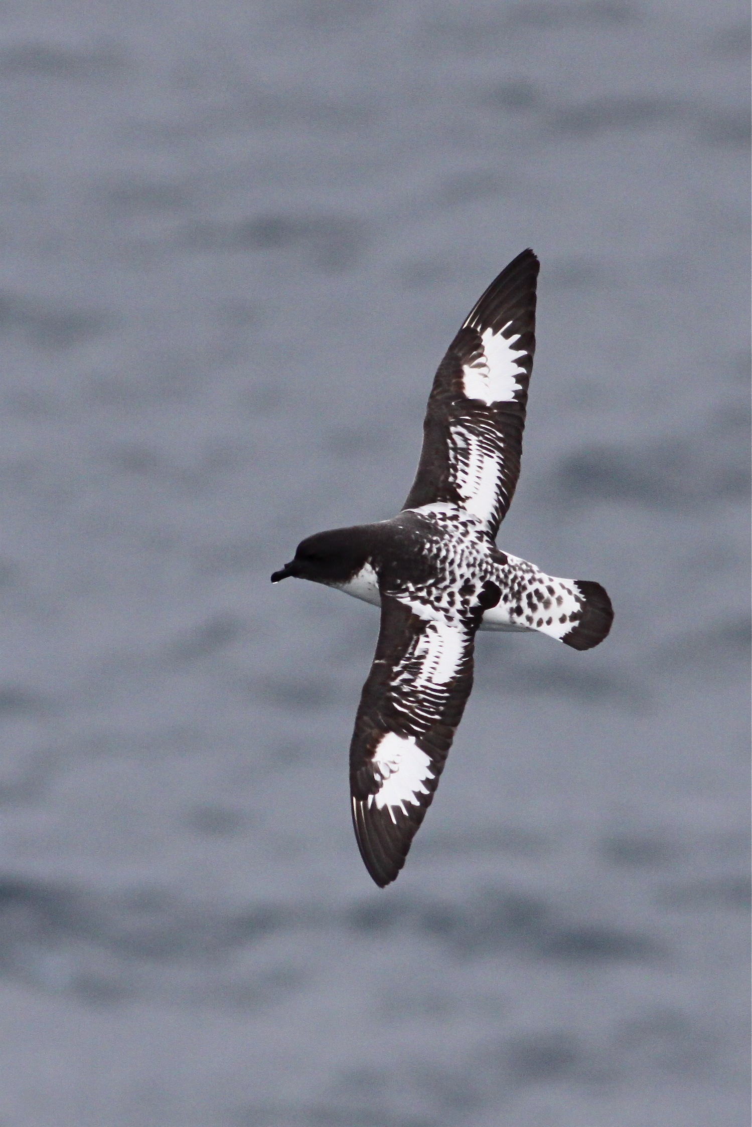 Cape Petrel, west of Falkland Islands.